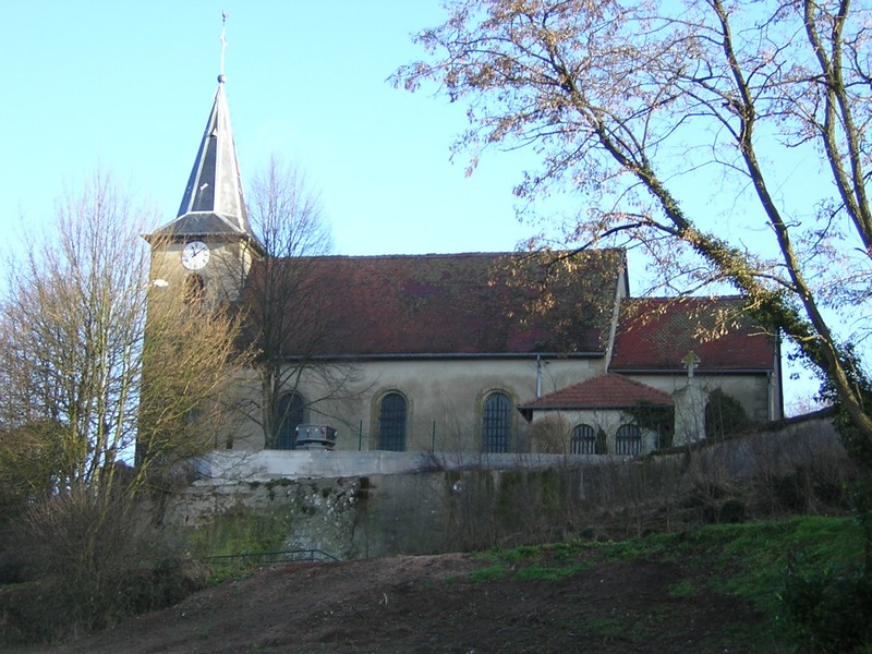 Saint-Brice Church of Falck, Moselle, France